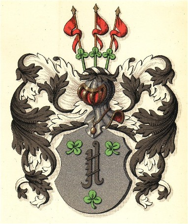 Coat of arms of the Knuth family